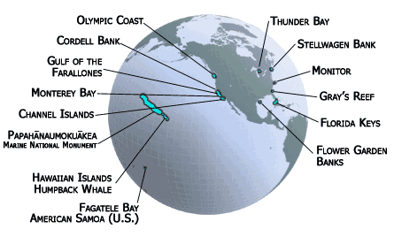 Global map of all sites in the United States National Marine Sanctuary system.